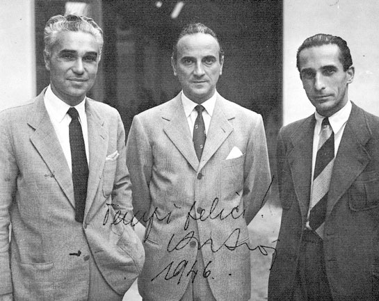 From left: Piero Taruffi, Piero Dusio and Giovanni Savonuzzi, of the italian Cisitalia automaker (established 1946 by Dusio with Taruffi). Written on the photo is "Tempi felici, 1946" meaning "Good times". The signature is not identified.